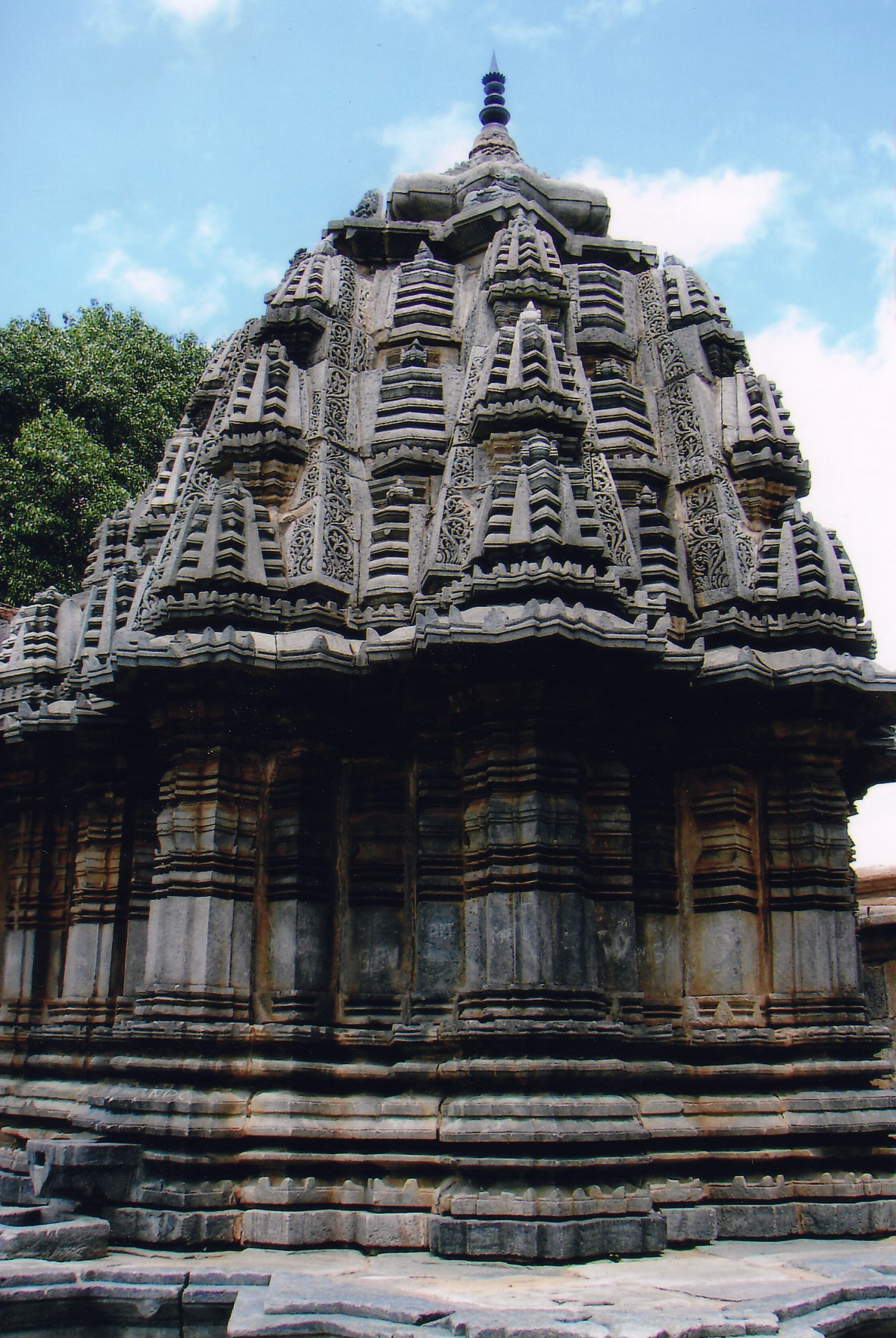 Close up of the vimana in Sadashiva Temple at Nuggehalli. Located in Sadashiva temple (also spelt Sadasiva) in Nuggihalli (or Nuggehalli) , Karnataka, India.